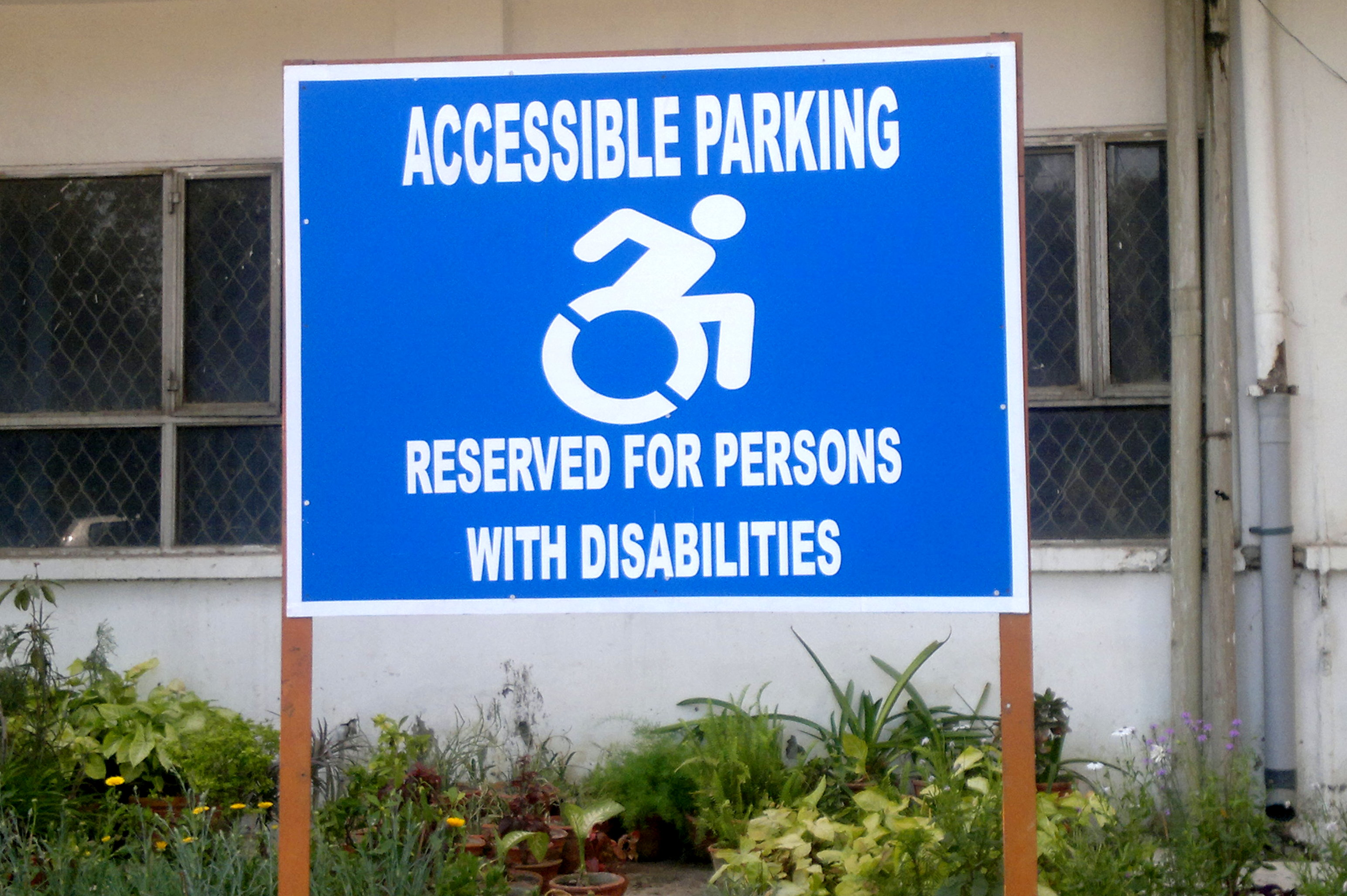 Modified and active use of International Symbol of Access being promoted by Enabling Unit, UCMS, Delhi